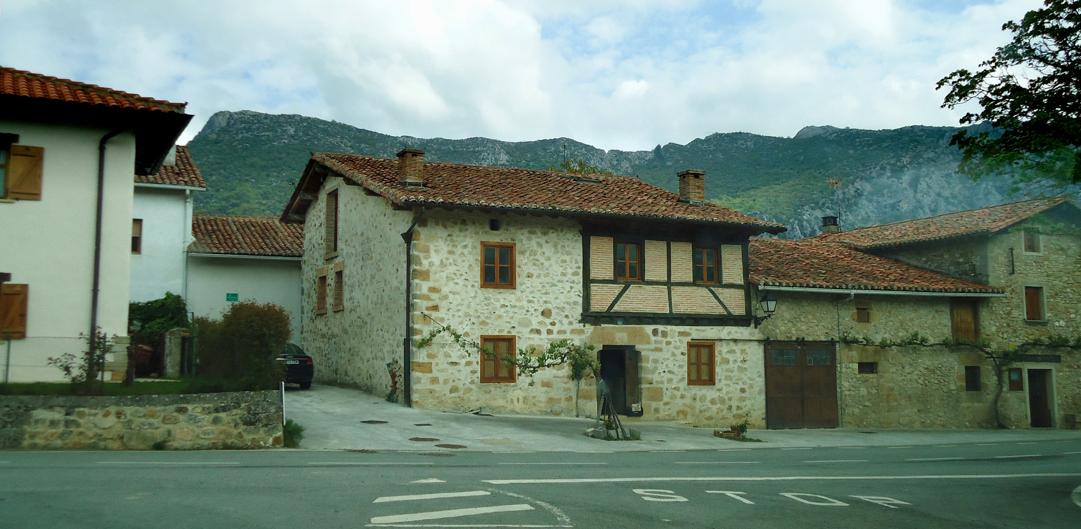 Ilarduia village (Araba, Basque Country)